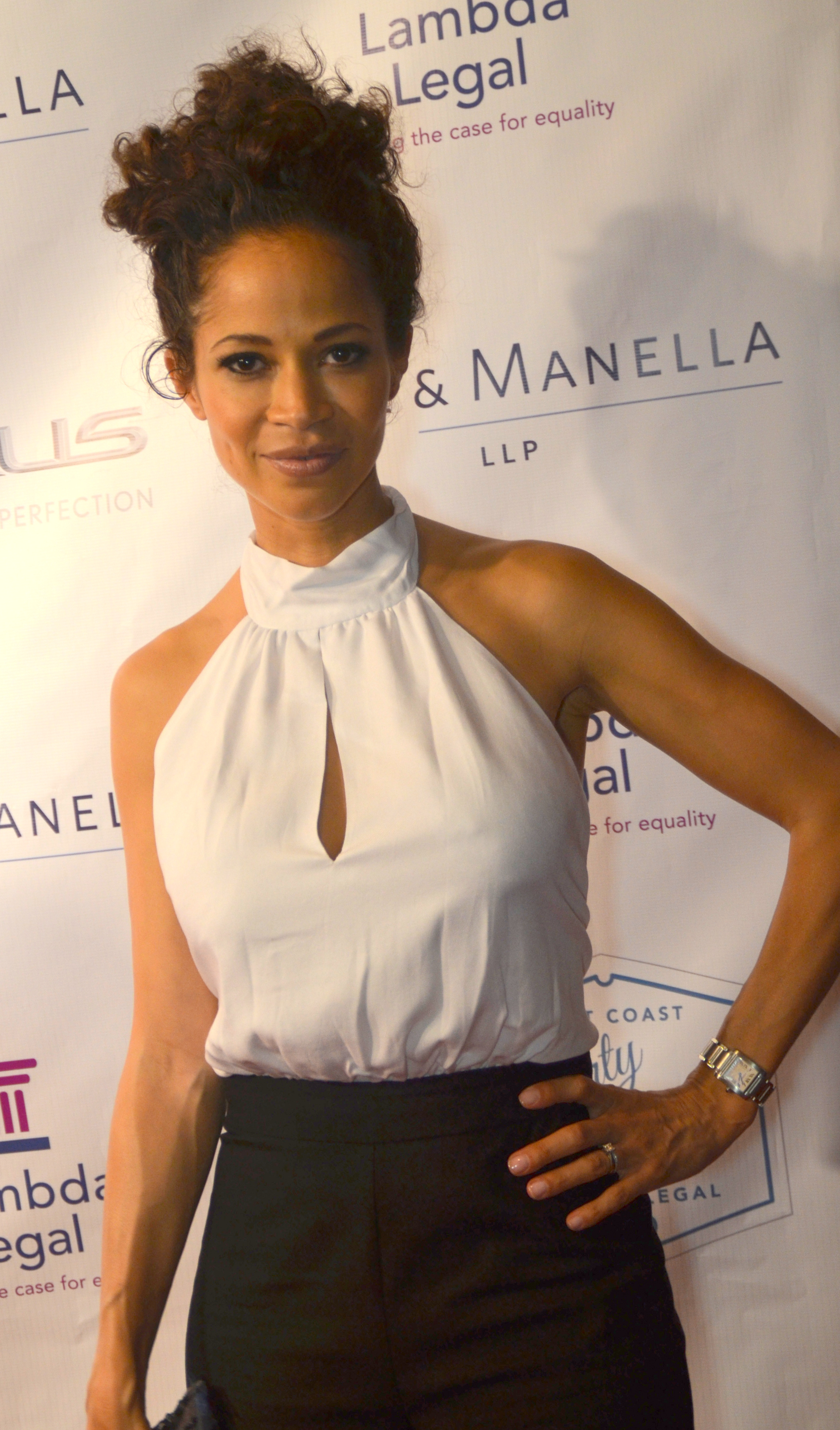 Sherri Saum Mingle Media TV and Red Carpet Report host Ashley Harrington were invited to cover Lambda Legal's 2014 West Coast Liberty Awards Red Carpet Fundraising Gala Hosted by Cheyenne Jackson at the Beverly Wilshire Four Seasons Hotel.